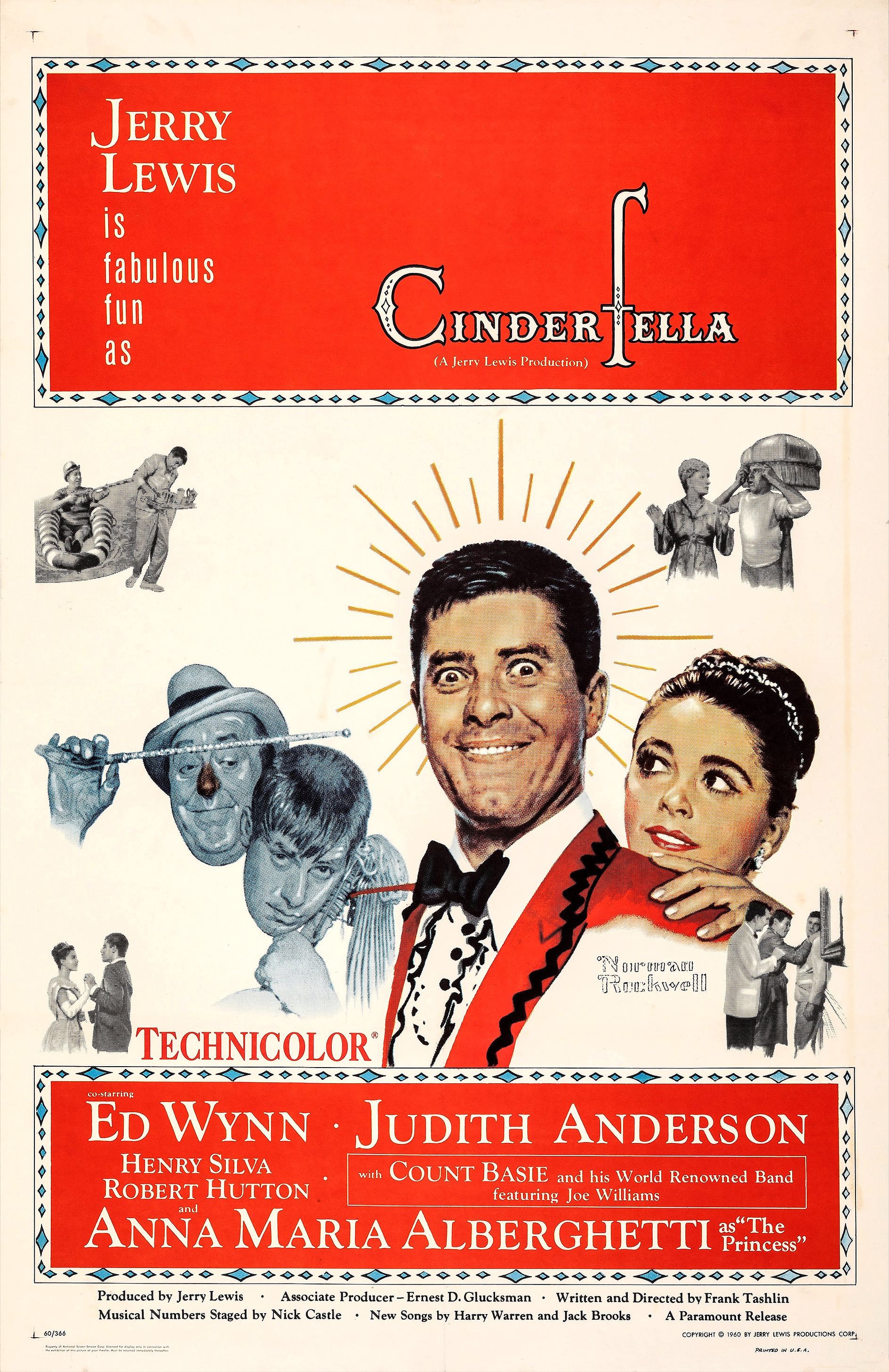 Theatrical release poster for the 1960 film The Song of Bernadette.